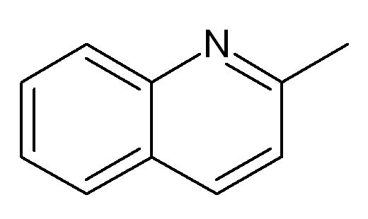 Created using: ACD/ChemSketch